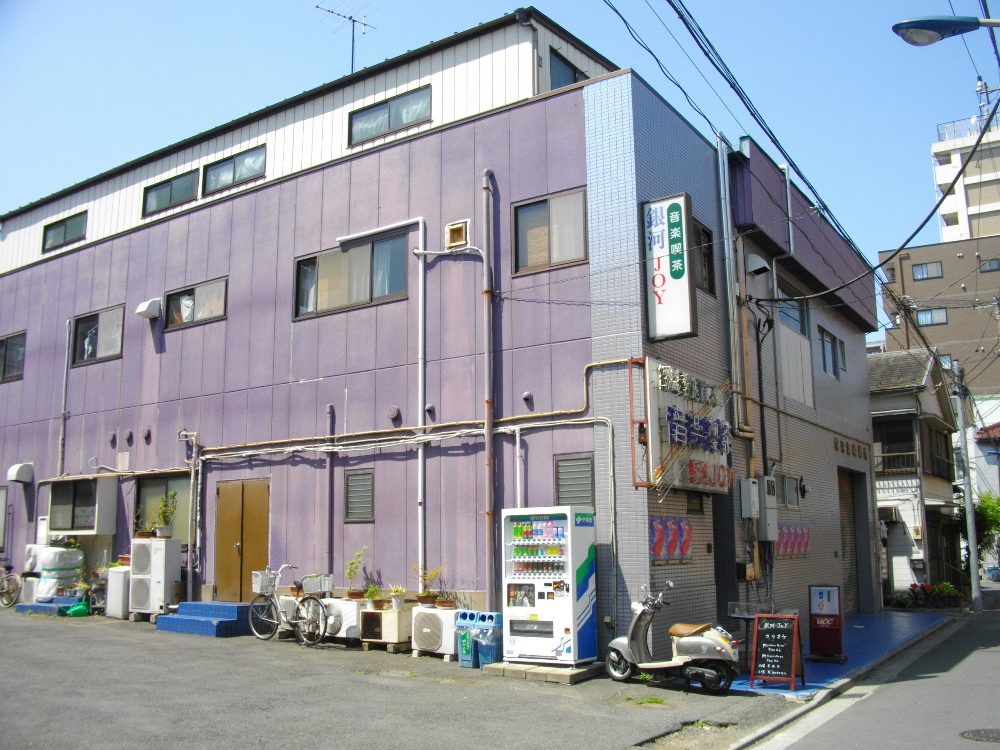 Ginga JOY in Akabane